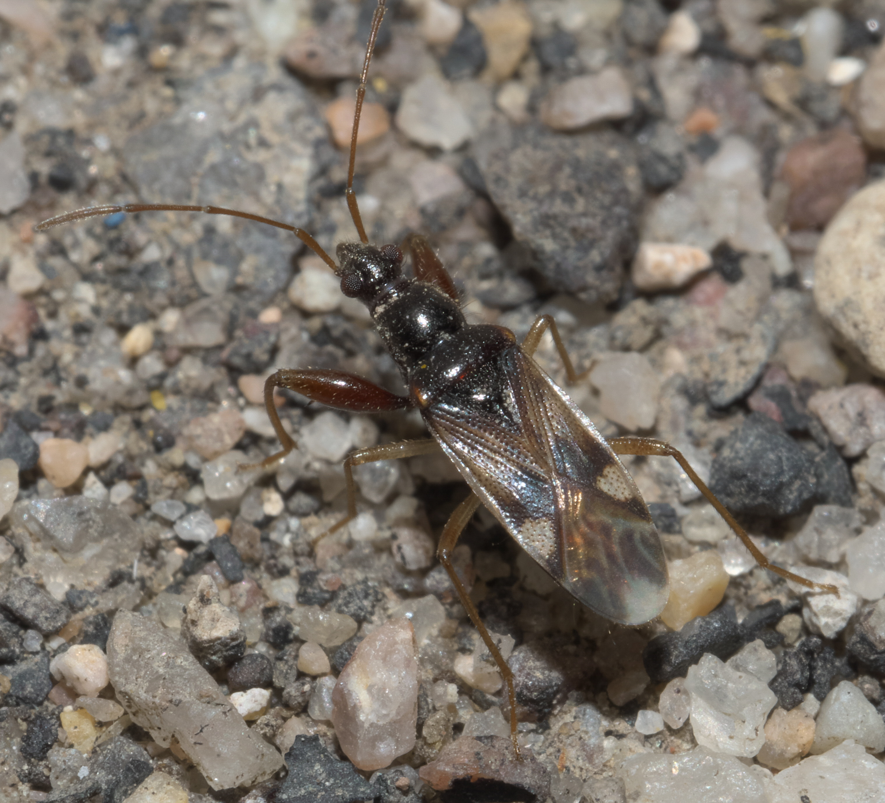 Pseudopamera nitidula, Family: Dirt-colored Seed Bugs, Size: 6.1 mm, ID Confidence: 98